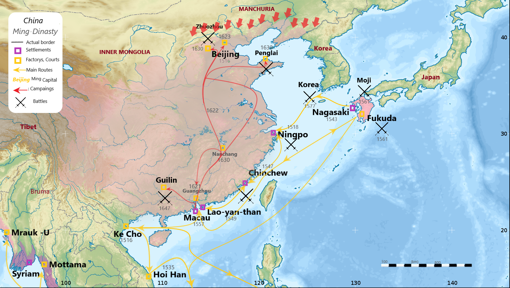 Portuguese Presence in China from the 16th century until 1999.